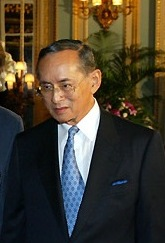 BANGKOK. Thai King Bhumibol Adulyadej.